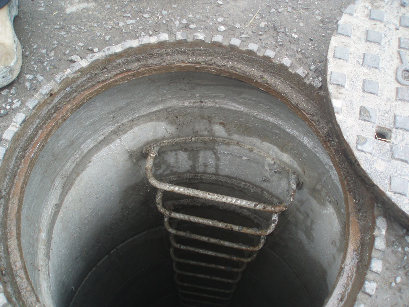 MH Steps